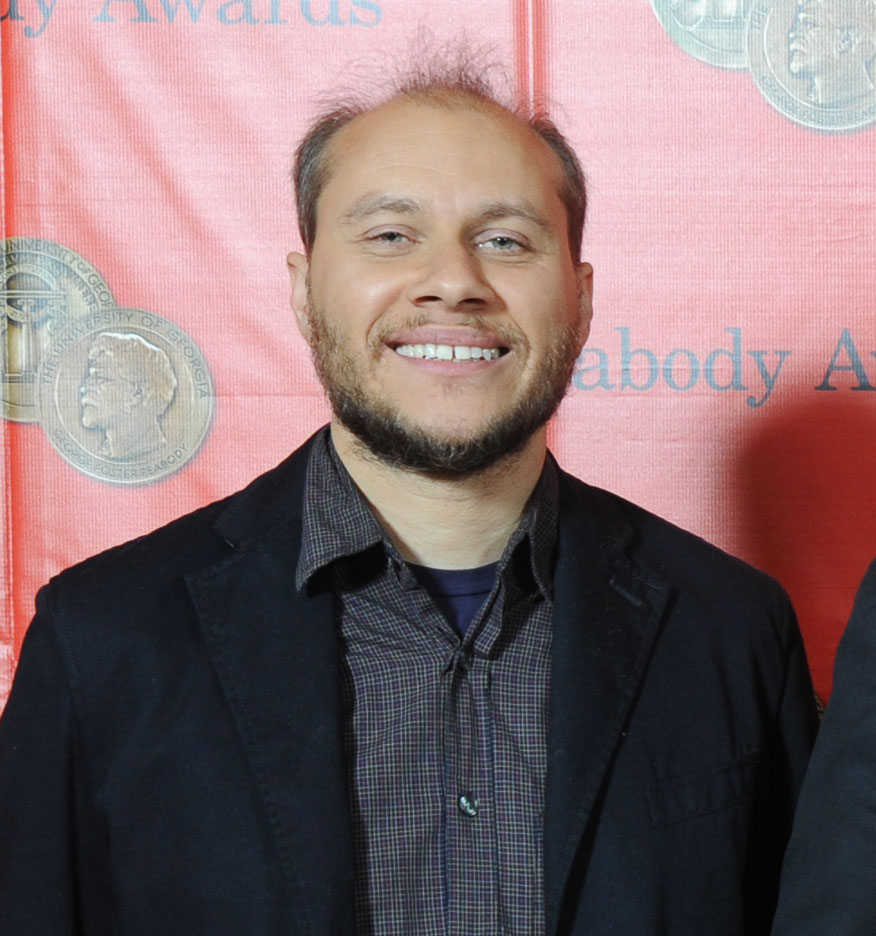 Vernon Chatman at the 72nd Annual Peabody Awards Luncheon Waldorf-Astoria Hotel